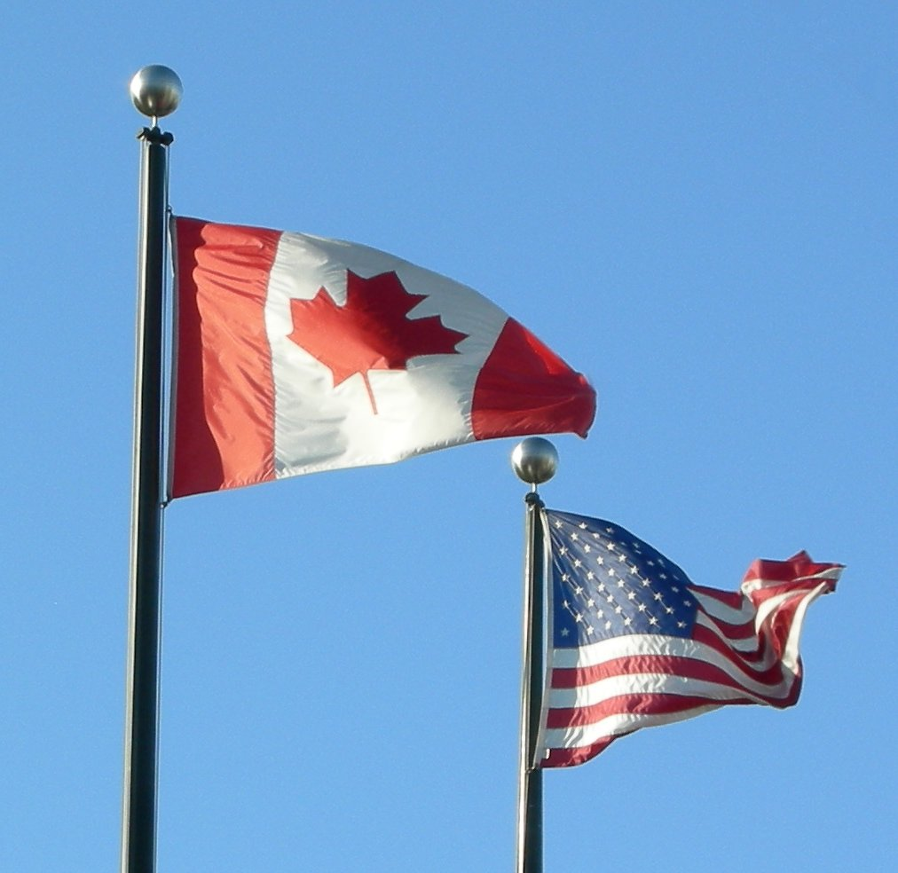 The flags of Canada and the United States of America, flying side-by-side outside PGE Park in Portland, Oregon